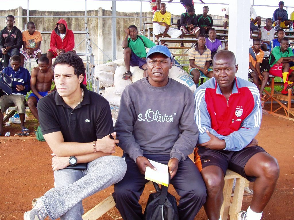 In Cameroon, Enrique scouts for new football talent